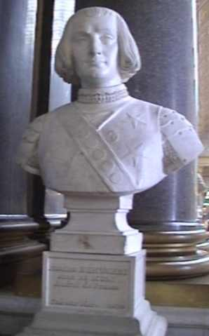 Nicolas Béhuchet, battles gallery, Versailles castle, France